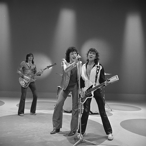 Golden Earring in AVRO's TopPop (Dutch television show) in 1974